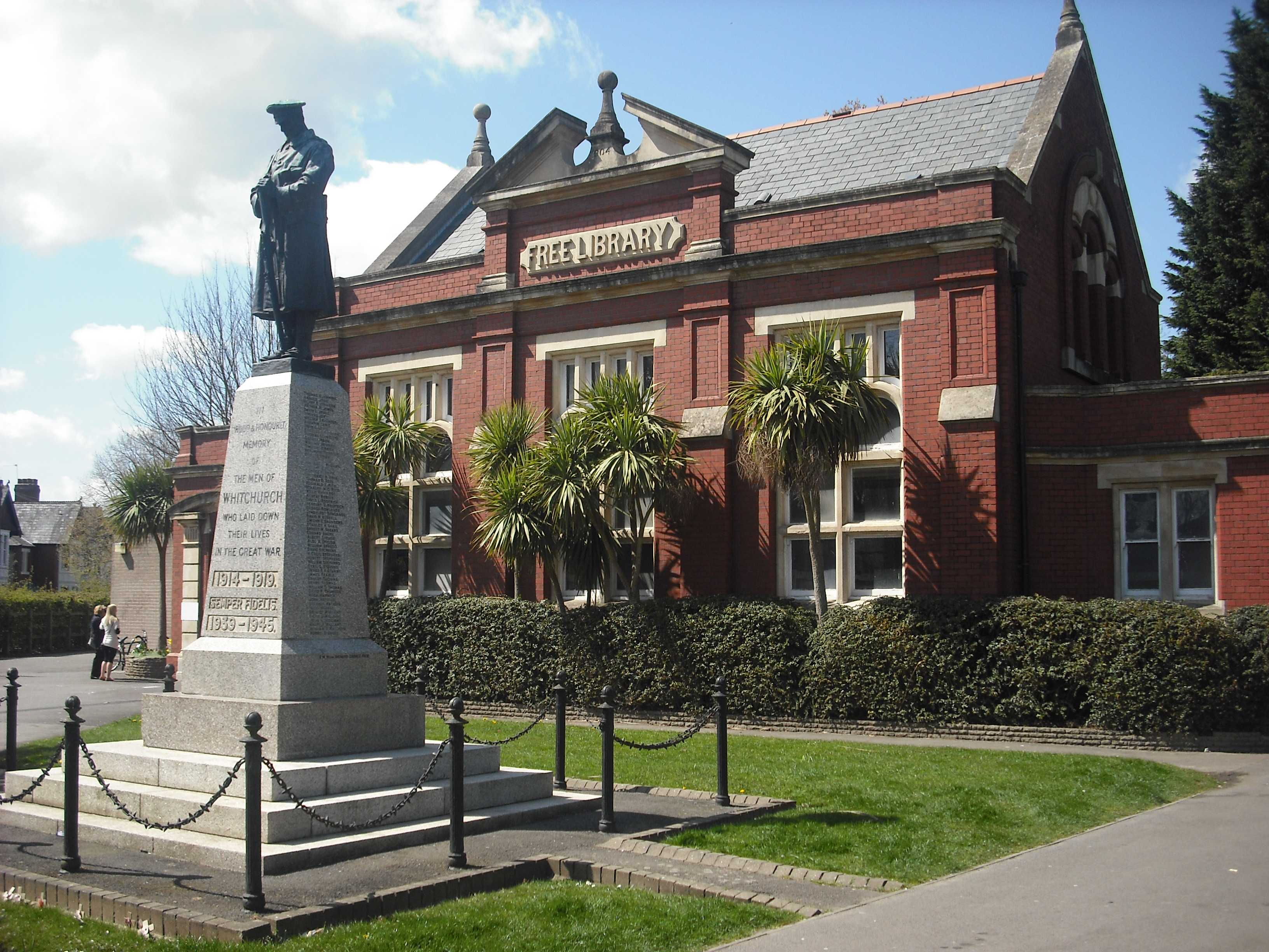 Whitchurch Free Library and War Memorial at the junction of Park and Velindre Roads, Cardiff, Wales